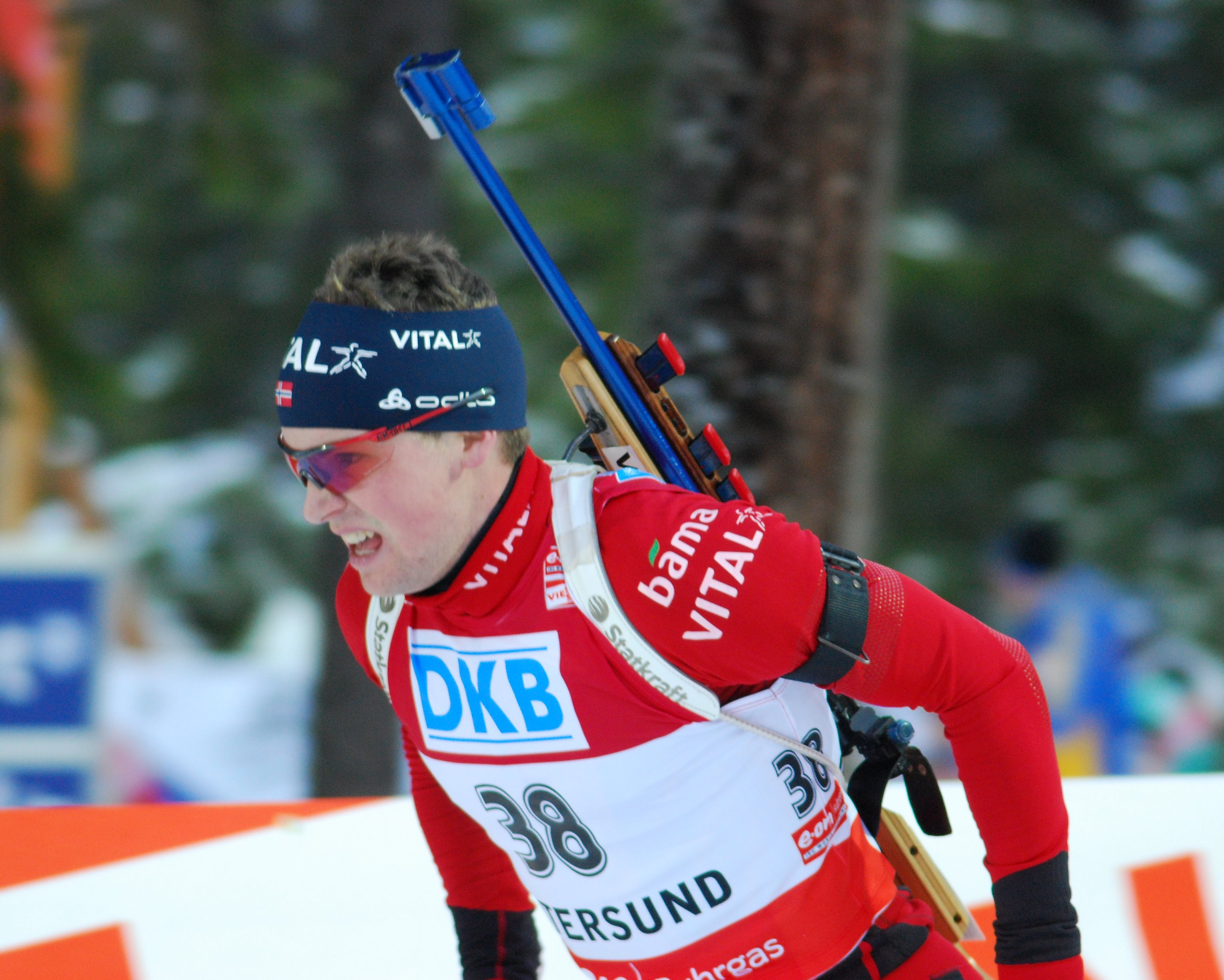 Norwegian biathlete Rune Bratsveen during the World Championships in Östersund 2008.